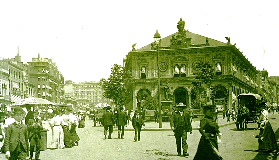 New York Herald Building, general view of Herald Square, intersection of sixth Avenue and Broadway bet. West 34th and West 35th streets, New York, NY.